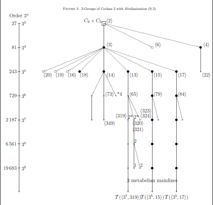 User:DanielConstantinMayer added the descendant tree of 3-groups of type (3,9)